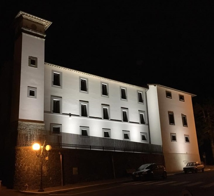 This photo represents the Bishop's Palace in Castel Giorgio (terni, Italy) which is called "Palazzo Sannesio".